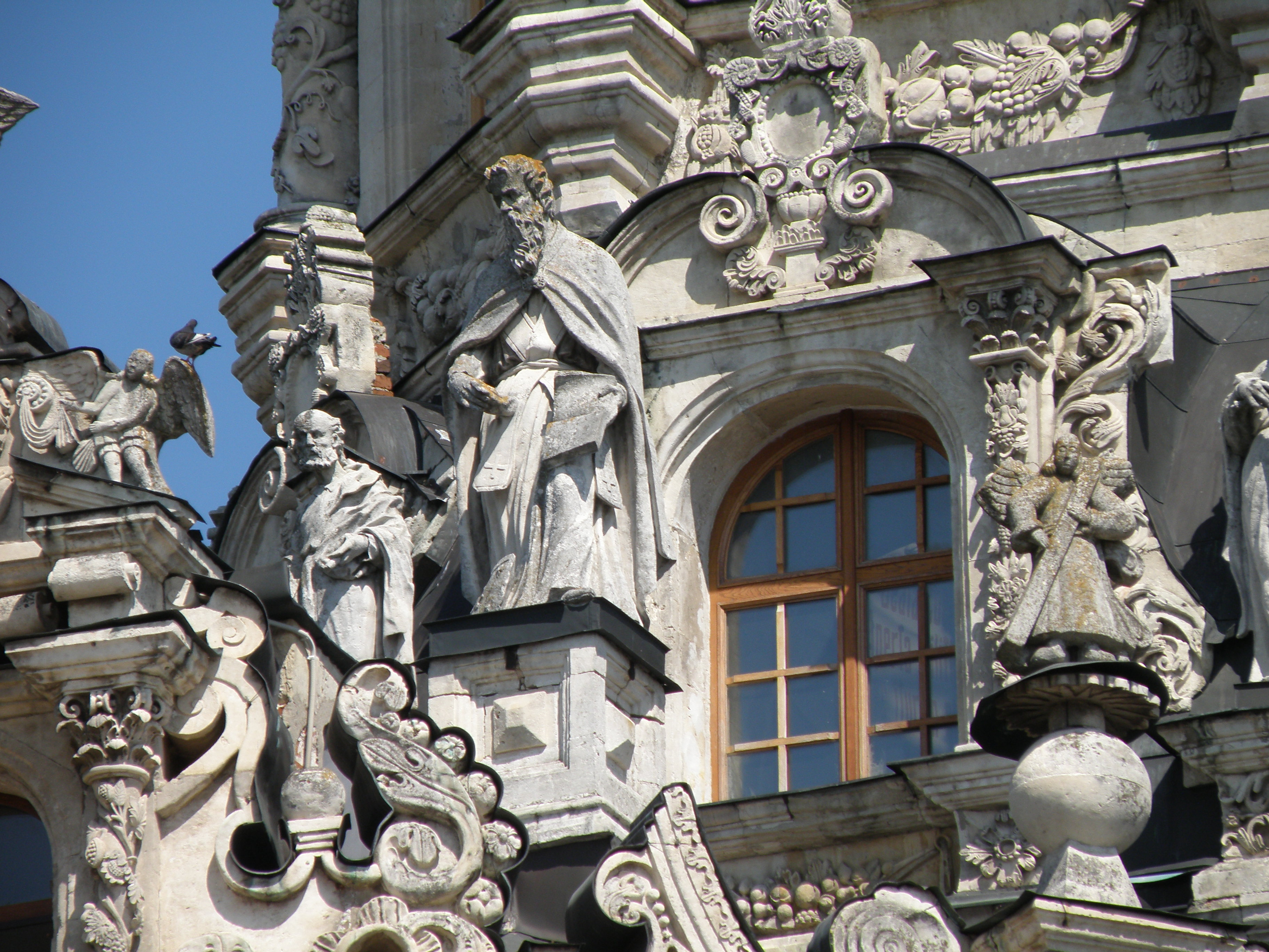 Church of the Theotokos of the Sign in Dubrovitsy